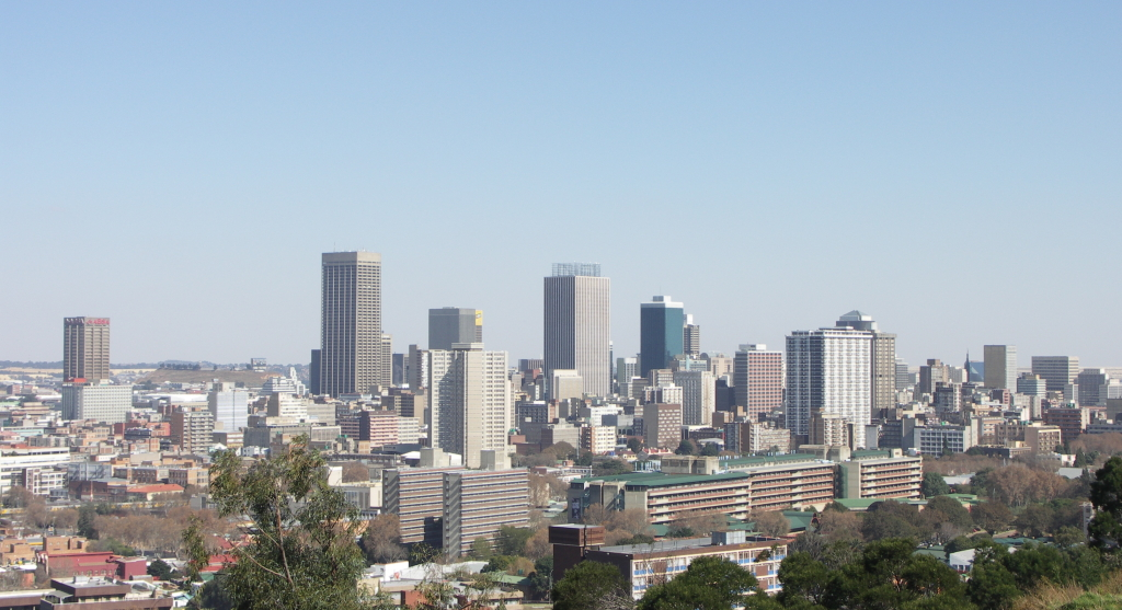 Johannesburg Skyline, Johannesburg.